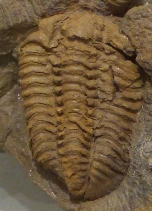 Crop of file in filename